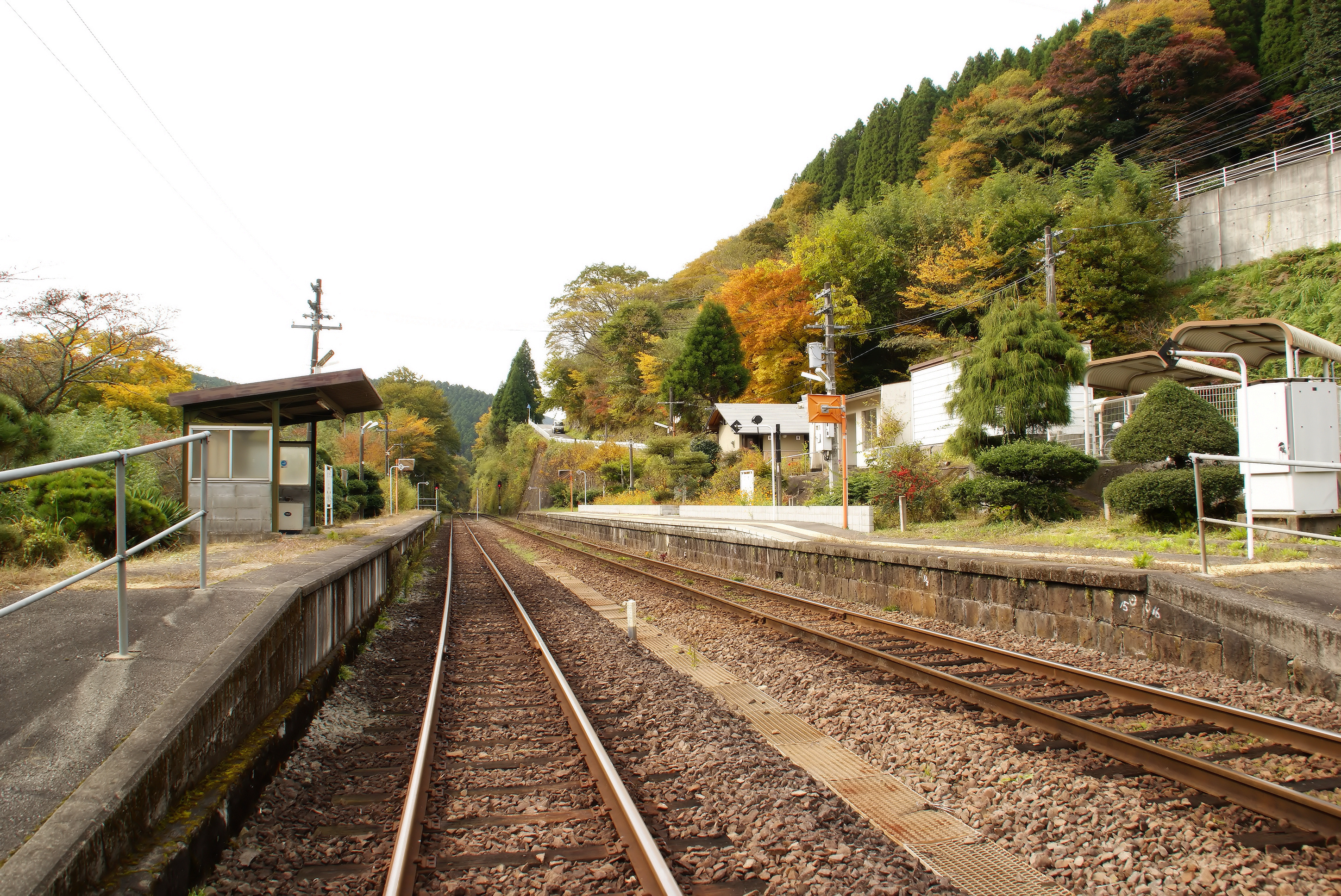 Kyushu Railway, Noya Station.(Kokonoe Town, Oita Prefecture, Japan)